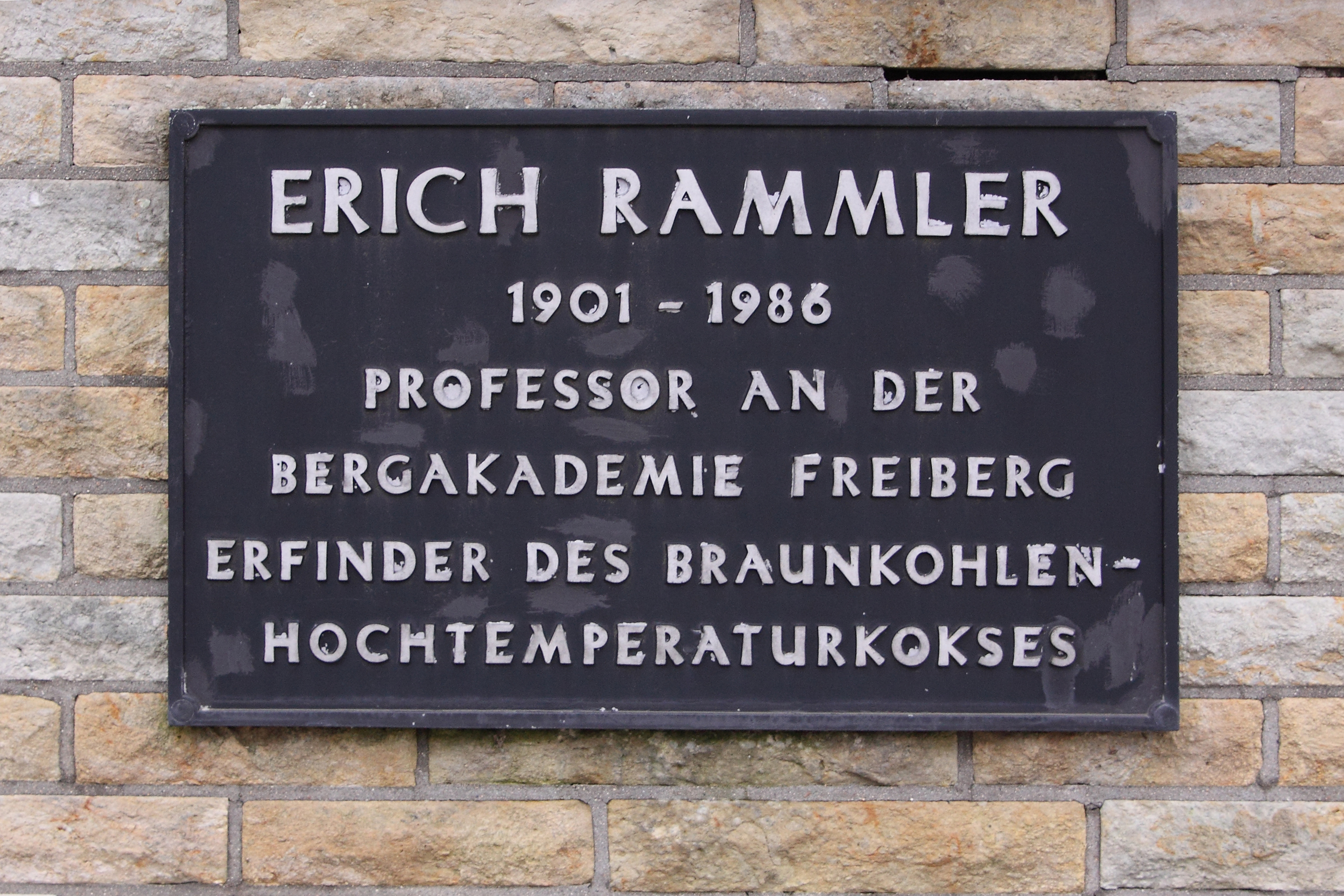 Erich Rammler, commemorative plaque in Freiberg